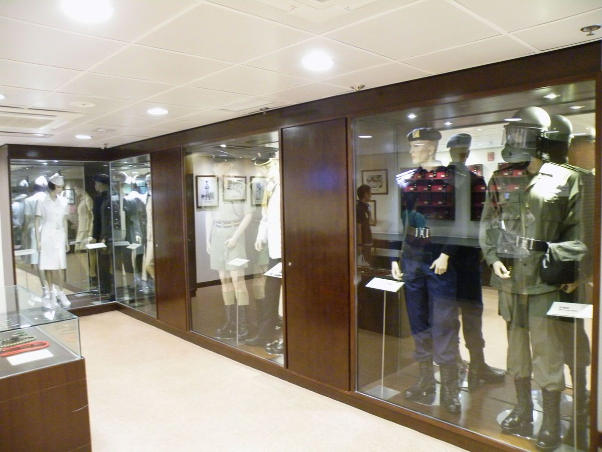 Hong Kong Correctional Services Museum